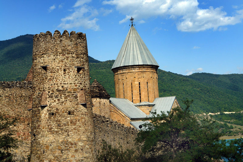 Ananuri Georgia